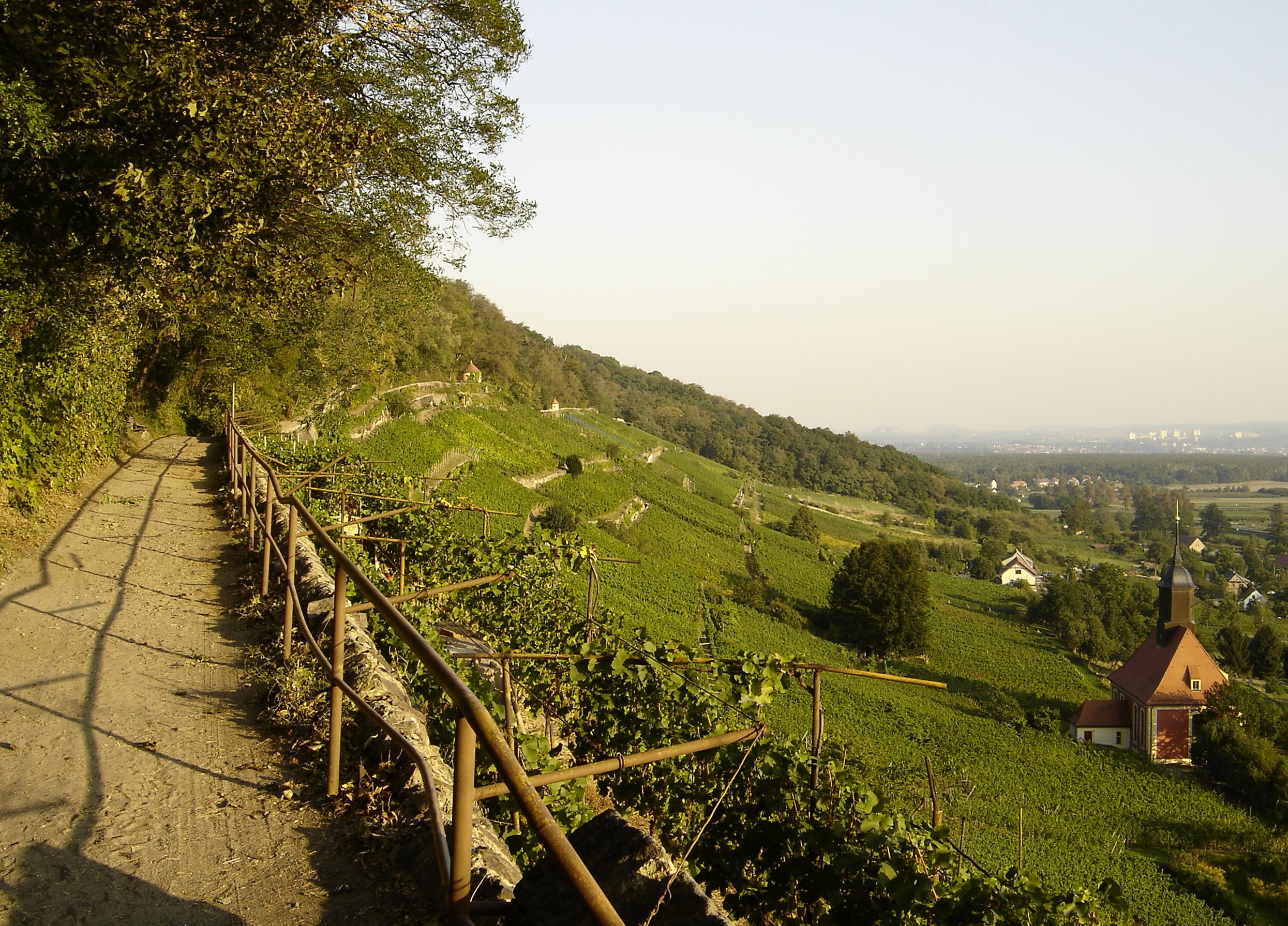 Trail through the saxon viticultural region near Pillnitz, Dresden